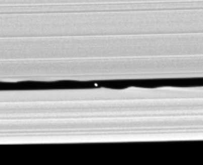 Photograph of moon Daphnis in the Keeler gap in the A ring of Saturn. The wave-like appearance of the ring debris is a result of gravitic perturbations from the moon's gravity.